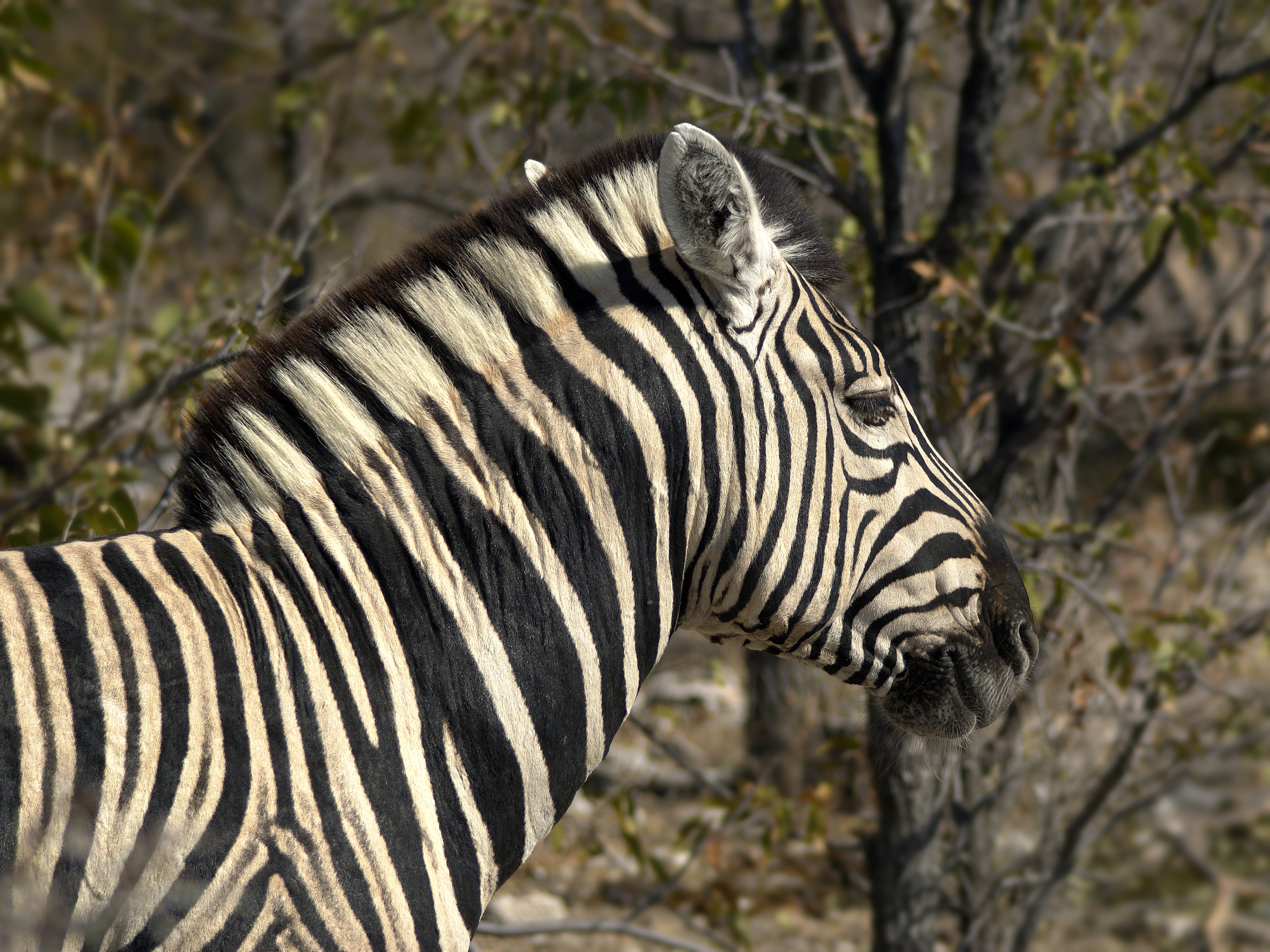 Closeup of a Damara Zebra close to Kalkheuwel waterhole, Etosha, Namibia. The trees in the background are Mopane (Colophospermum mopane).